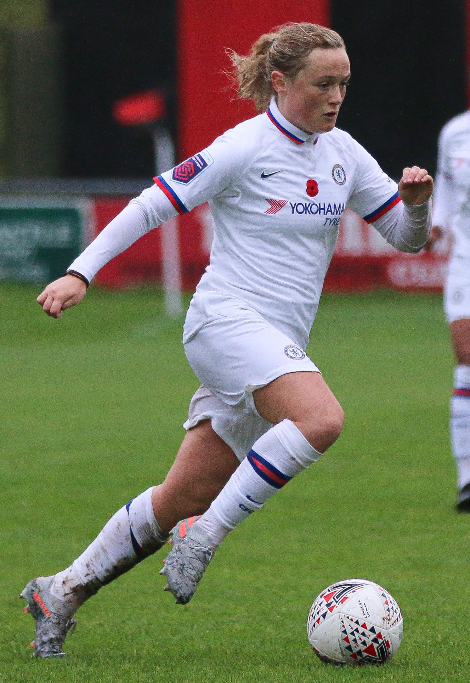 Erin Cuthbert of Chelsea